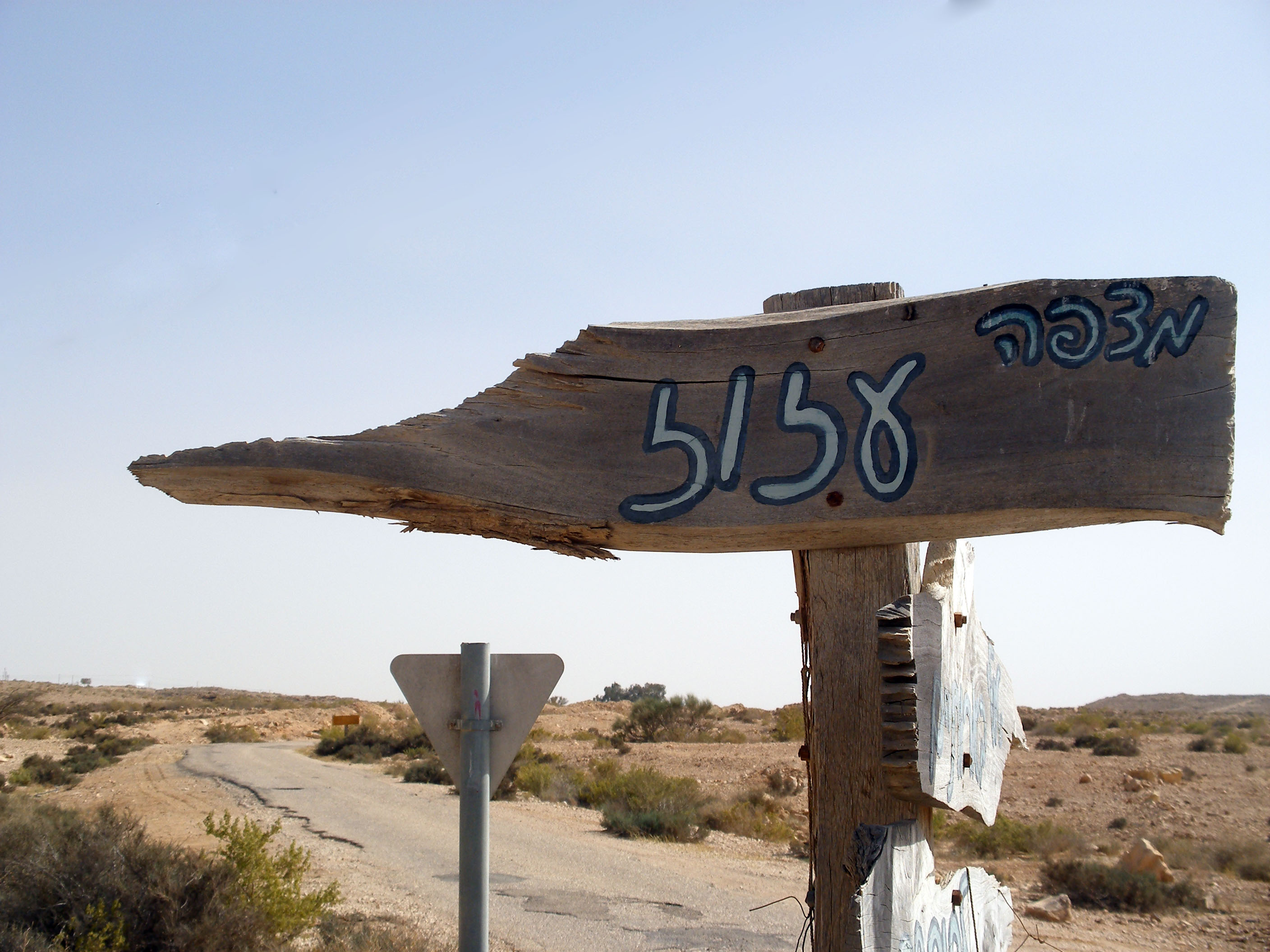 A sign towards Ezuz